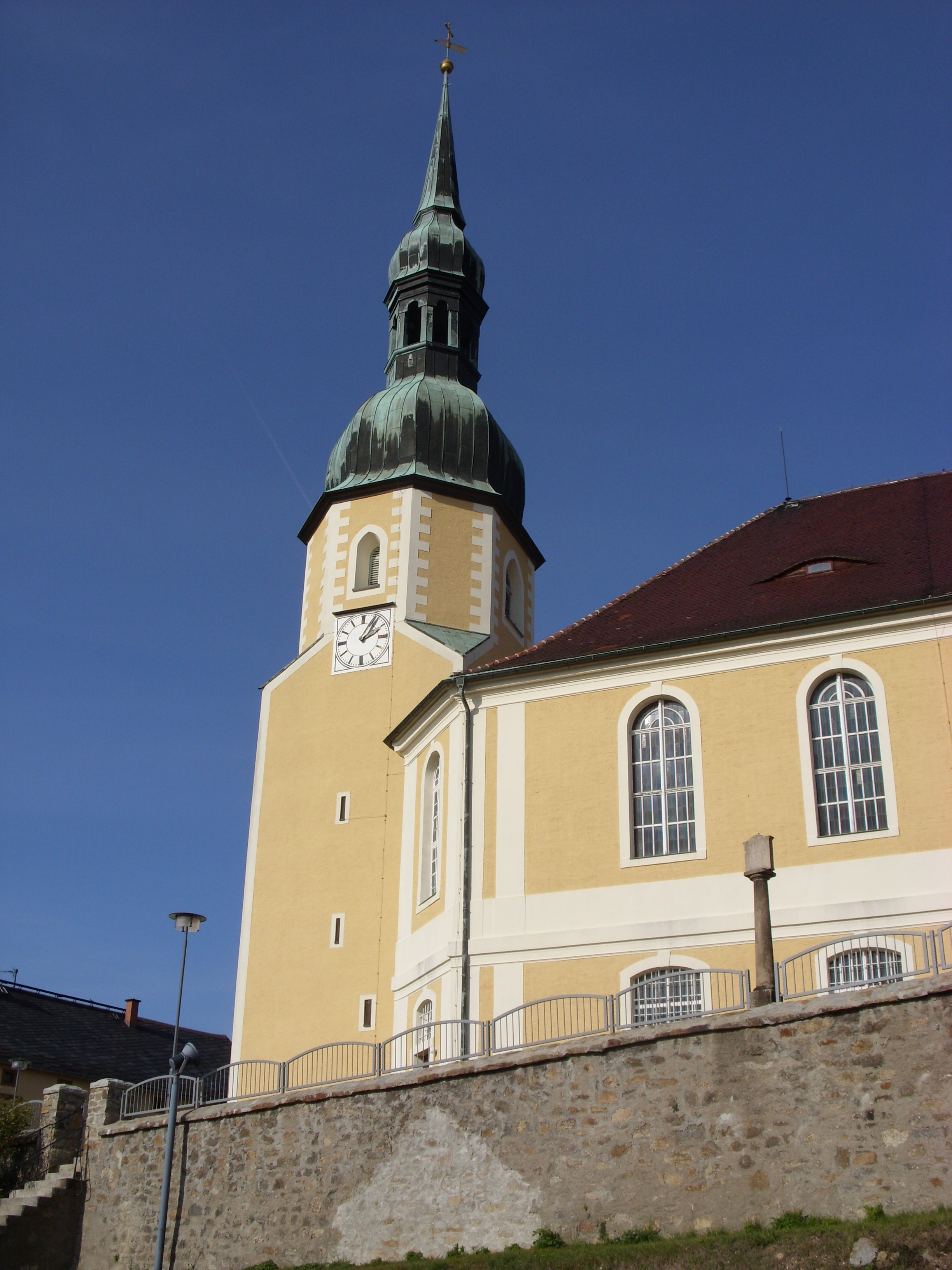 Catholic church of Crostwitz/Chrósćicy, Bautzen district, Upper Lusatia.